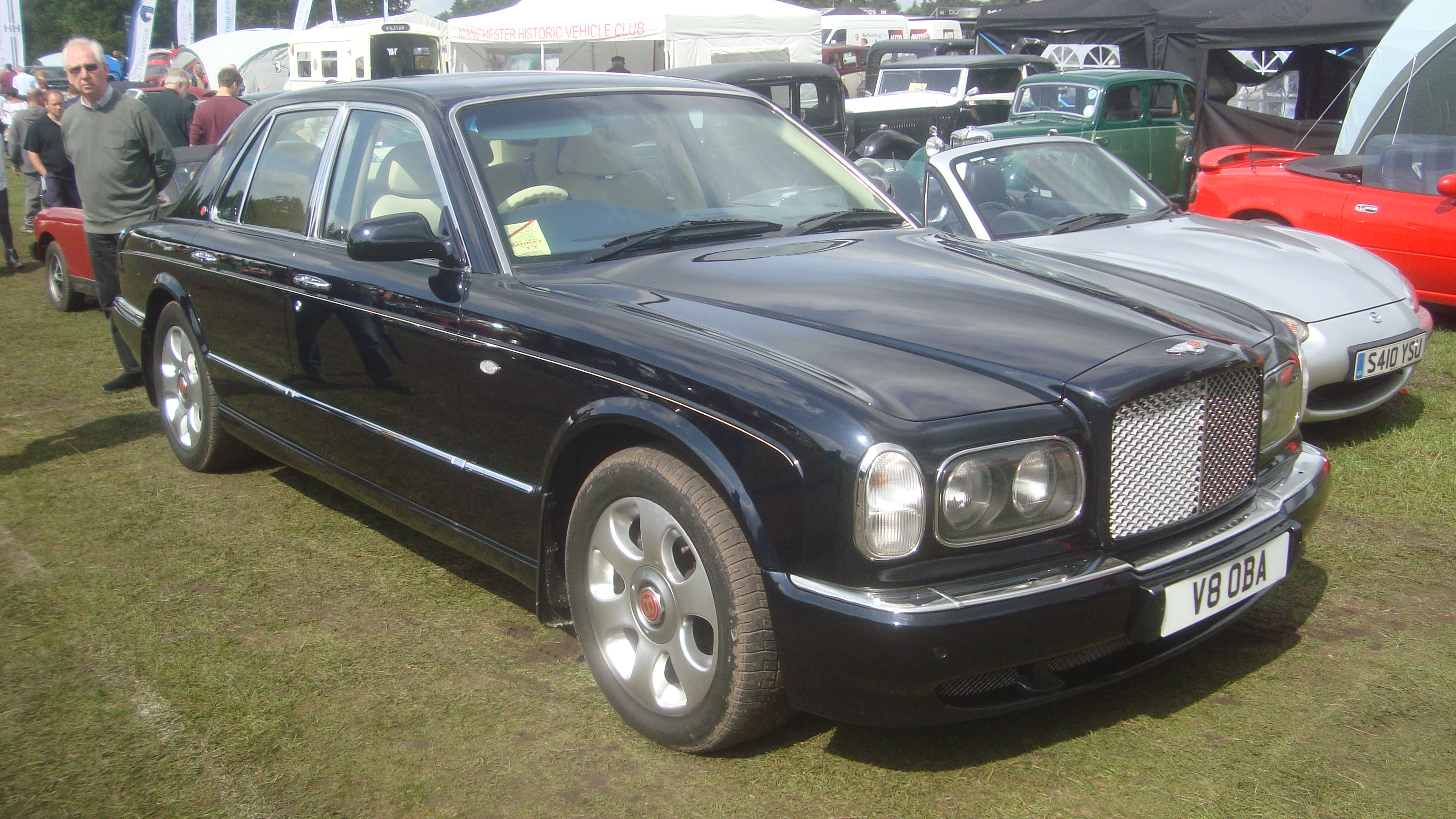 Taken at the Tatton Park 'Passion For Power 2017